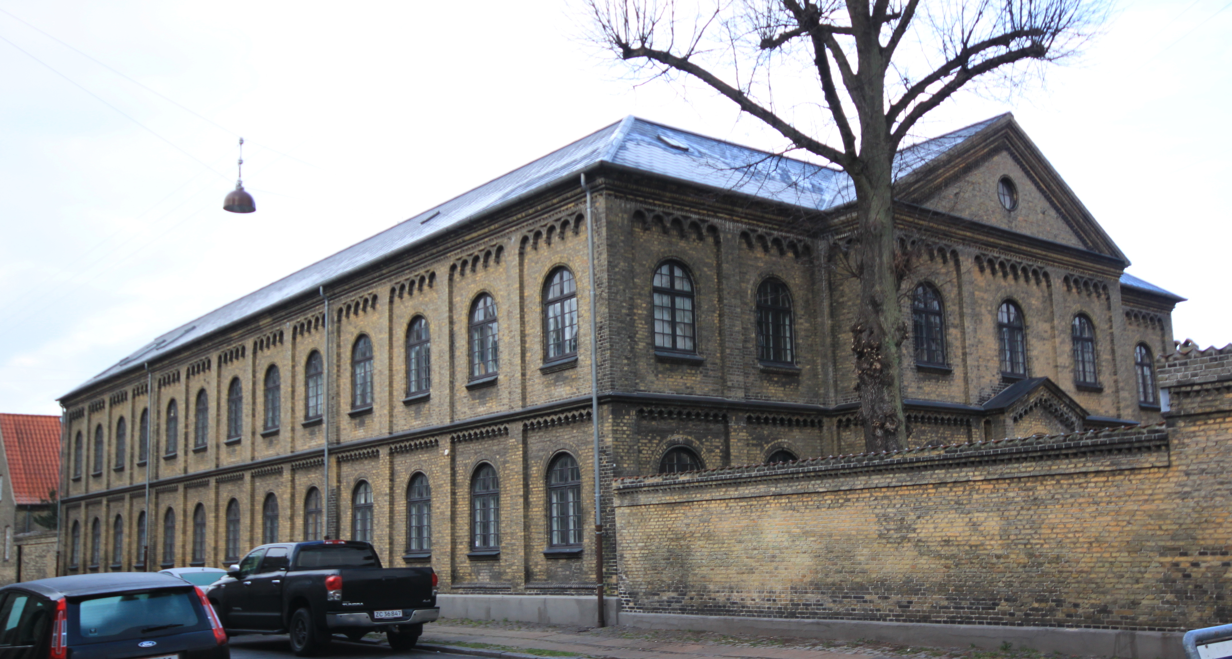 The former Gernersgade Kaserne, now Bygningskulturens Hus photographed on January 26th 2012.